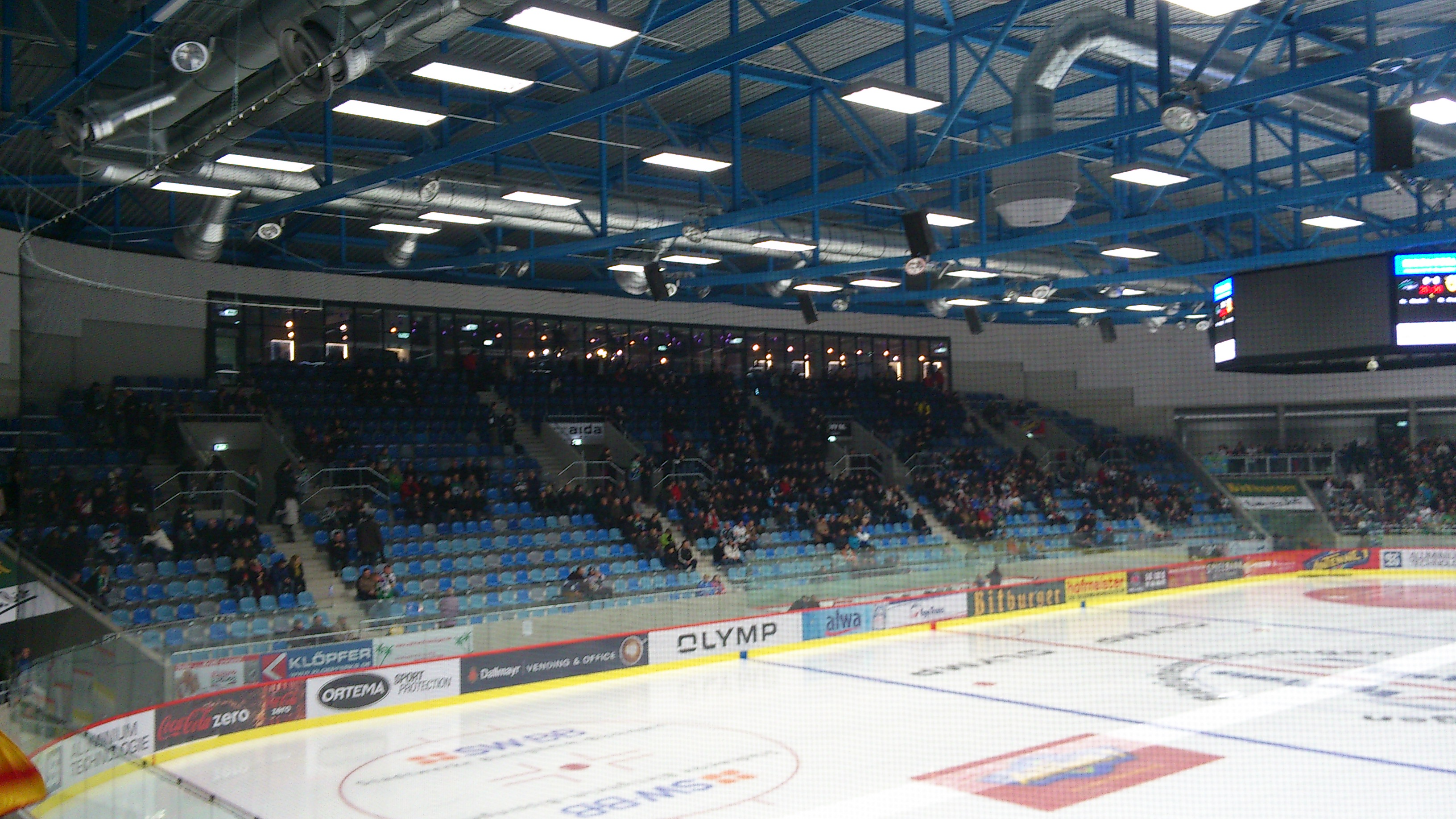 main stand of EgeTrans Arena